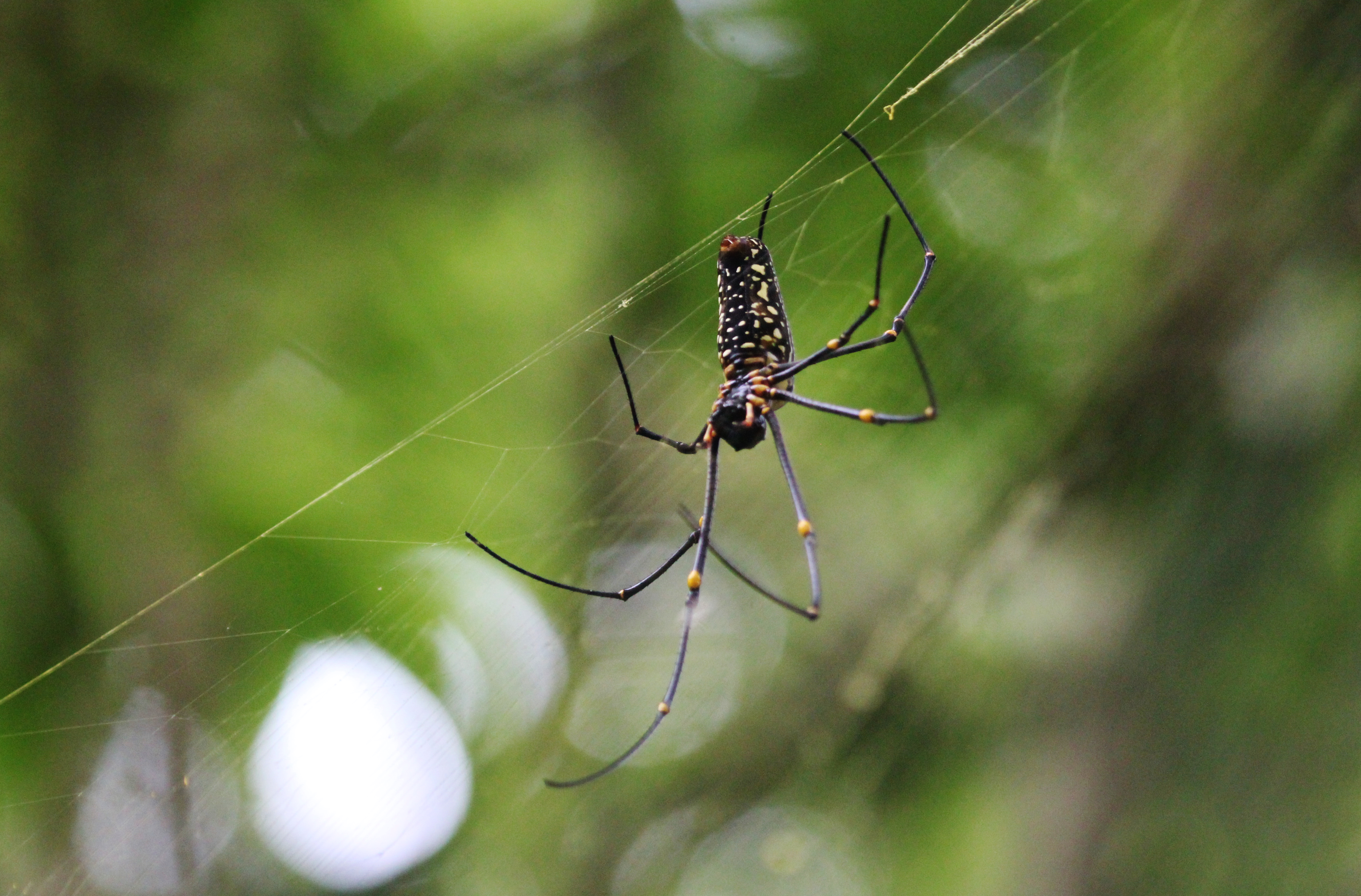 A giant golden orb weaver as seen in Kitulgala, Sri Lanka.